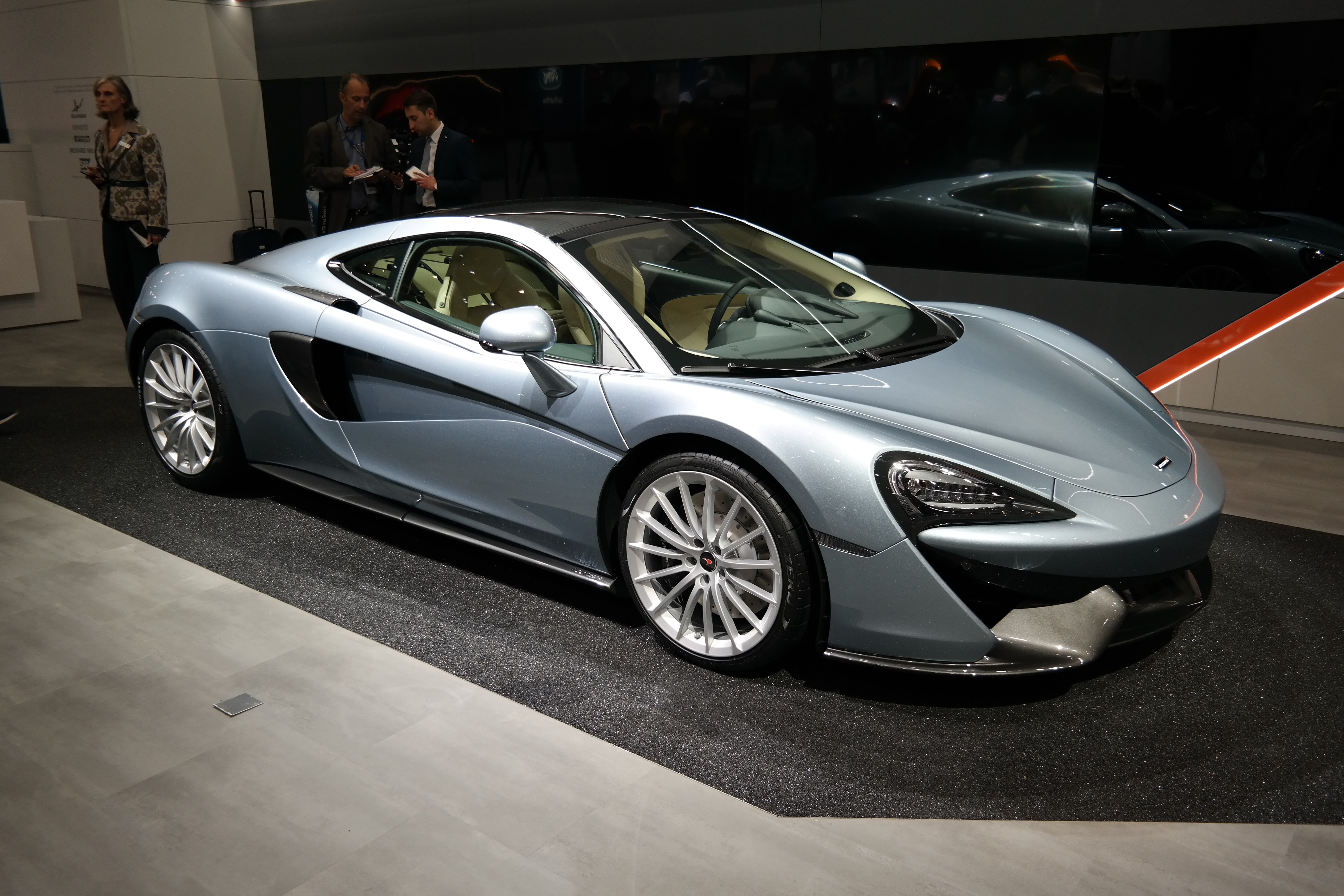 Geneva Motor Show 2017 (photo taken on the first press day)